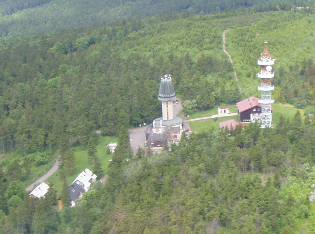 Suchy vrch in Orlicke hory